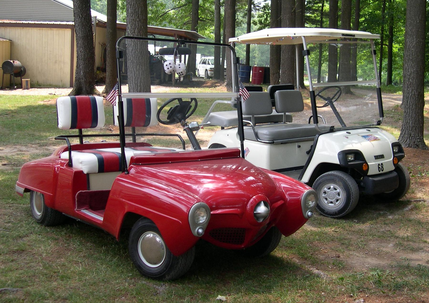 Golf carts. The cart on the left is designed to look like a Studebaker Commander.